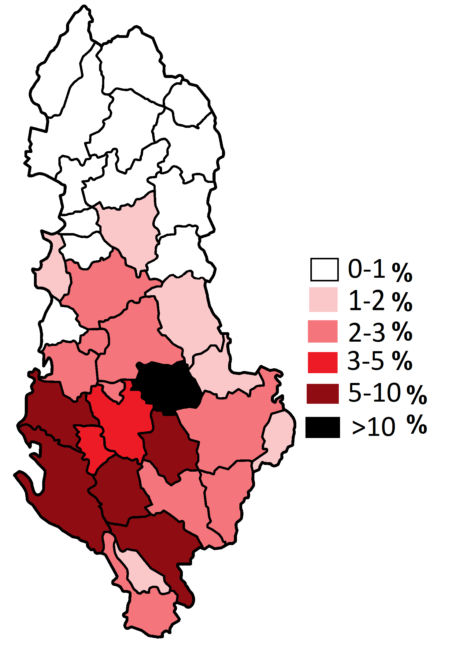 Percentage of self-identified atheists by district in Albania (2011 census)